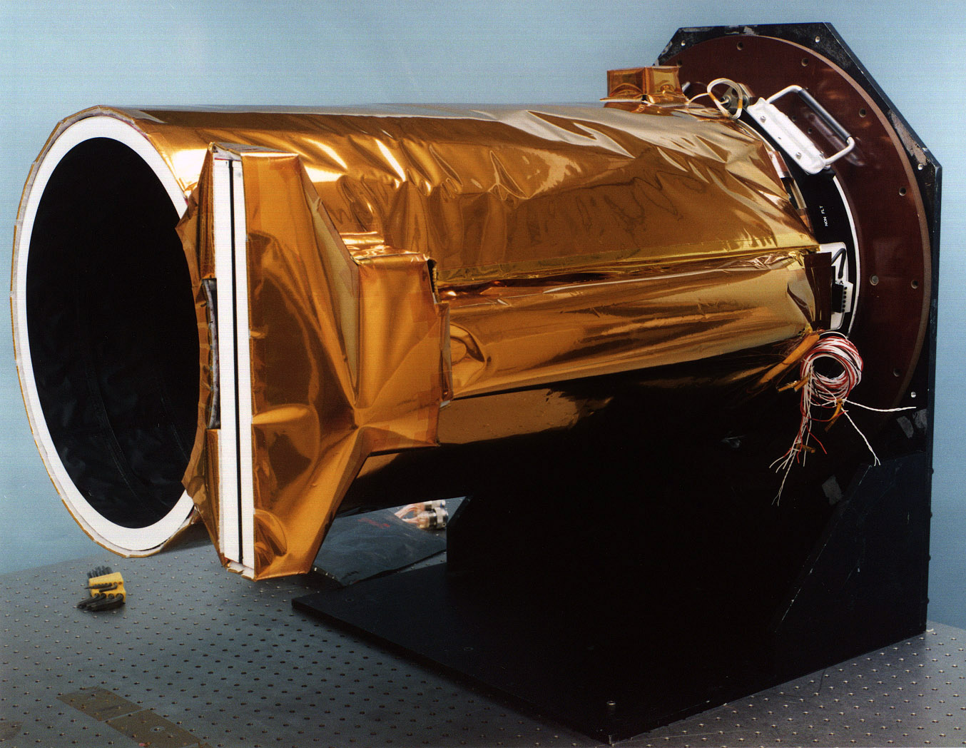 Mars Observer Camera (MOC) (renamed Mars Orbiter Camera on Mars Global Surveyor) science investigation used 3 instruments: a narrow angle camera that obtained grayscale (black-and-white) high resolution images (typically 1.5 to 12 m per pixel) and red and blue wide angle cameras for context (240 m per pixel) and daily global imaging (7.5 km per pixel). MOC operated in Mars orbit between September 1997 and November 2006. It returned more than 240,000 images spanning portions of 4.8 Martian years.